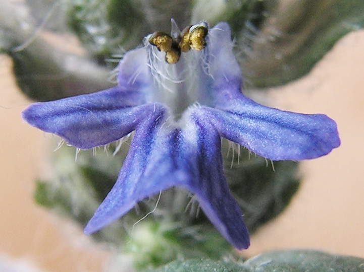 The flower of Ajuga reptans. Moscow region, Russia.